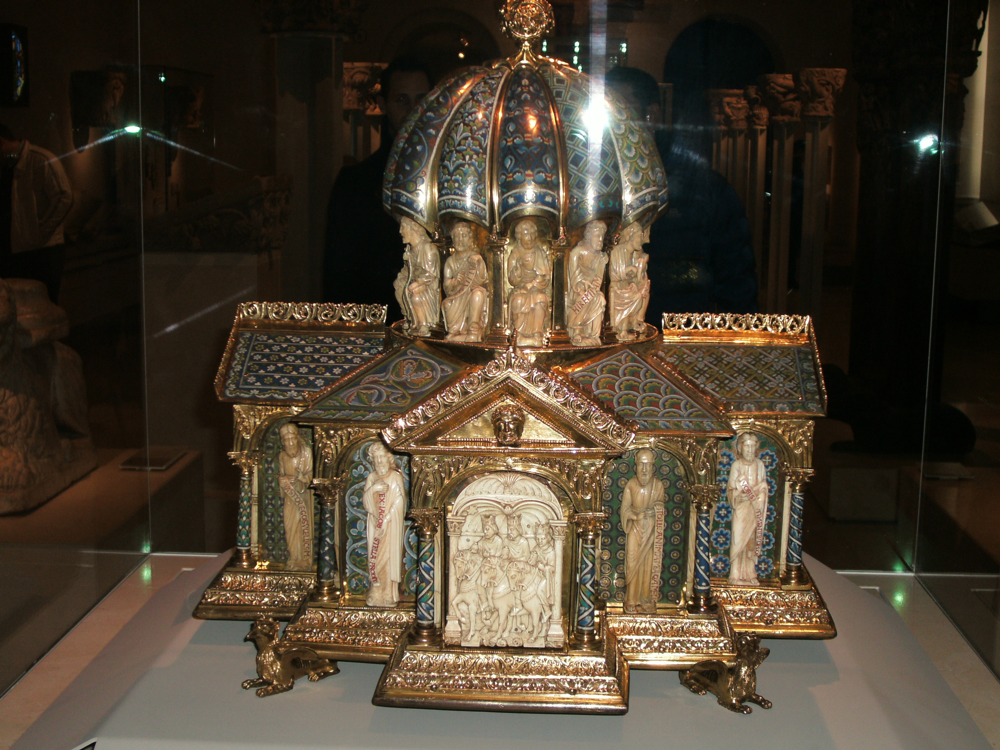 Tabernacle (circa 1180). Cologne, Lower Rhine (Germany). Gilded bronze and copper on a wooden core, with champlev� enamel and walrus ivory. Probably from the church of St Pantaleon. This tour de force of Romanesque goldsmiths' work and carving combined widely varied foliage patterns with figures that are classically inspired. Its function has been much debated. The iconography, or subject matter, centres on Christ's redemption of mankind, fulfilling Old Testament prophecy. This indicates that the tabernacle probably housed the consecrated bread for the Mass. Collection ID: 7650-1861 This photo was taken as part of Britain Loves Wikipedia in February 2010 by Adam Morgan.